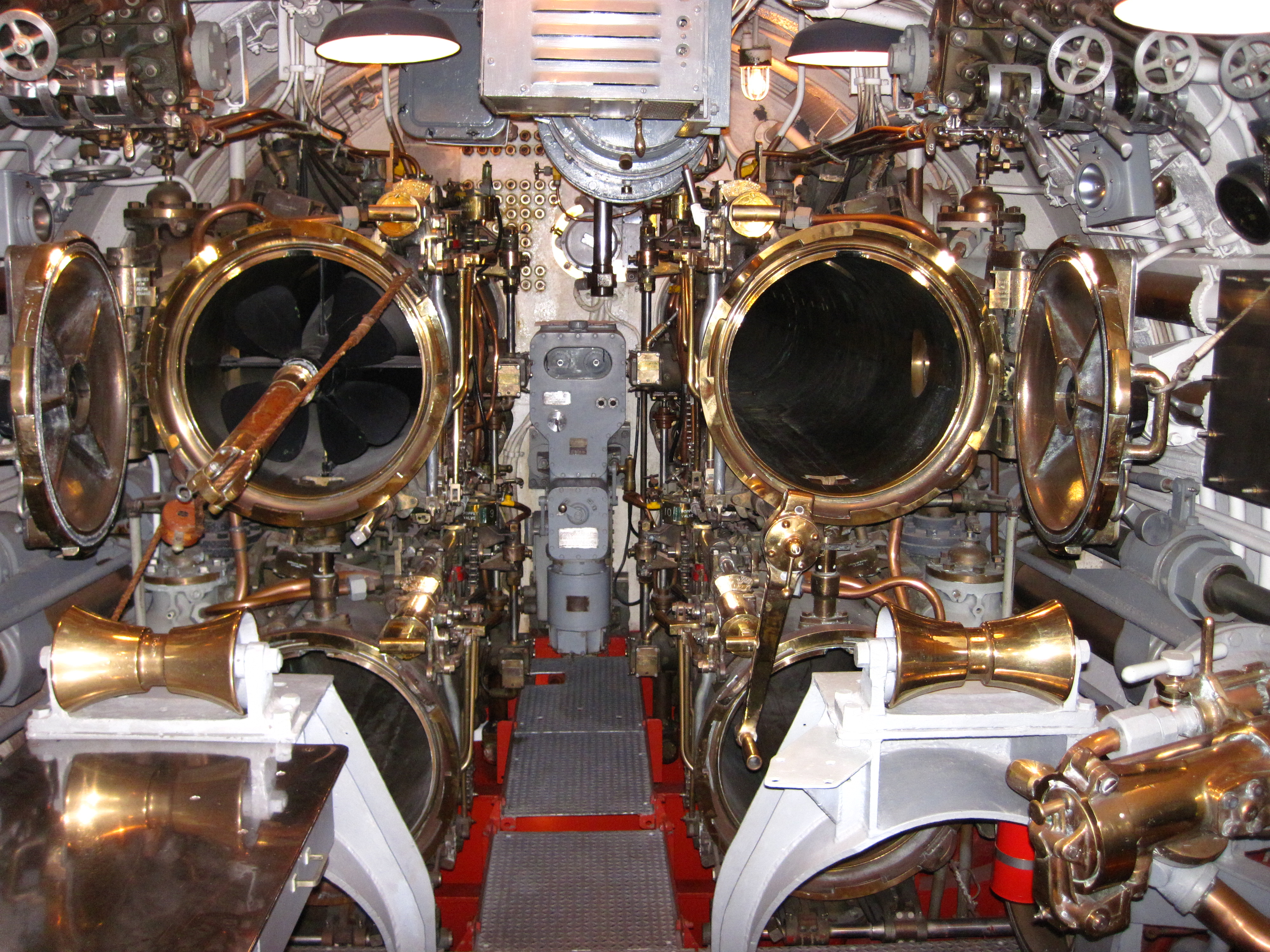 Torpedo Tubes in the USS Bowfin (SS-287). Picture taken at Hawaii, USA.